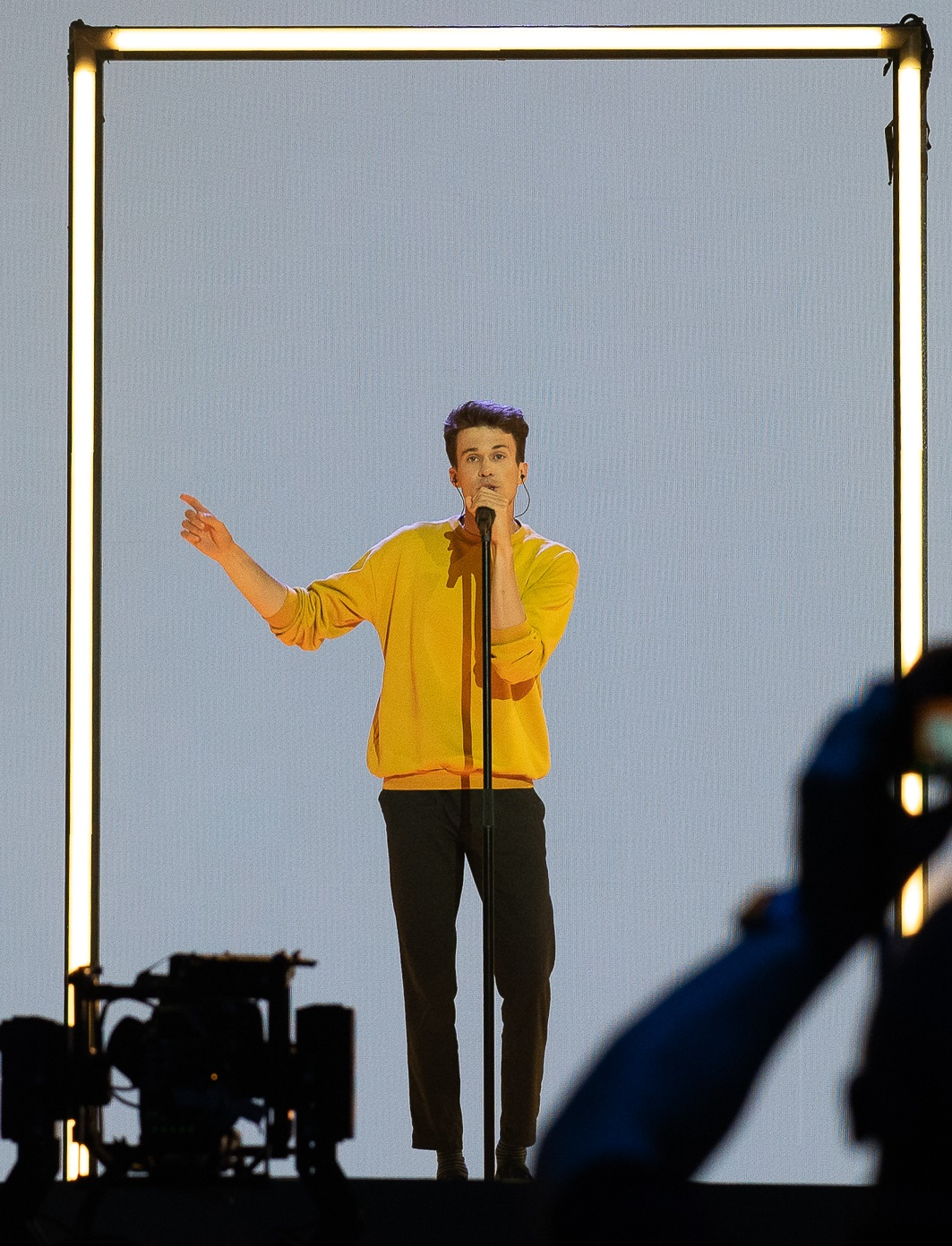 At the 2019 Eurovision Song Contest Semi-final 1 dress rehearsal – David Černý on stage